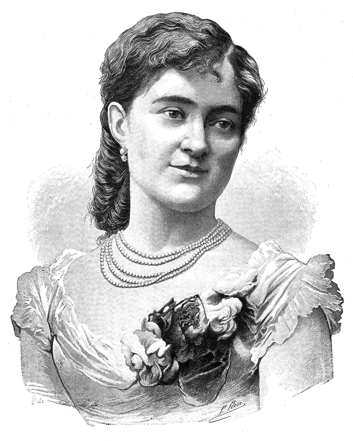 Ilustración de la Mujer Revista número 11